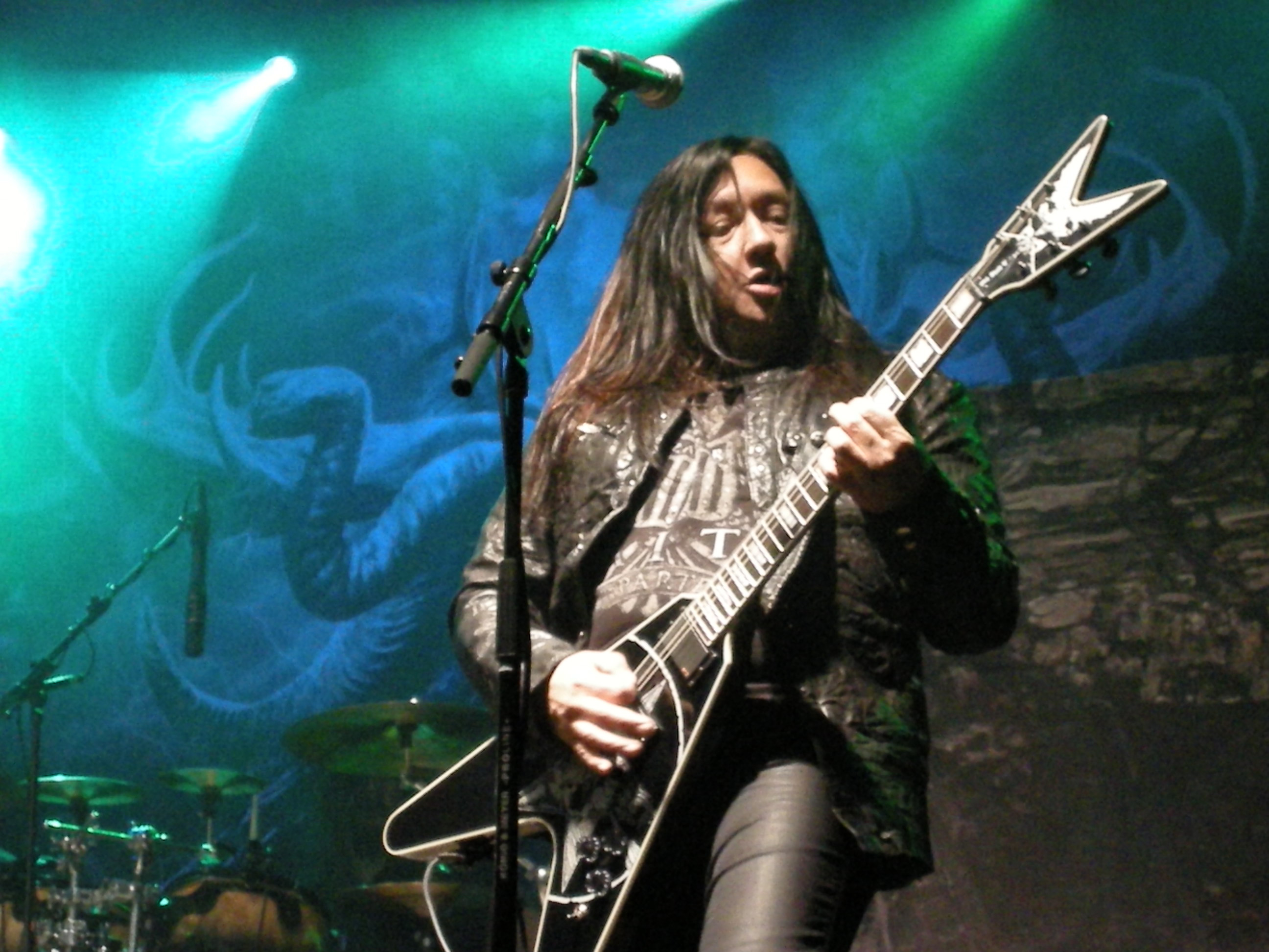 Testament at Skogsröjet 2012